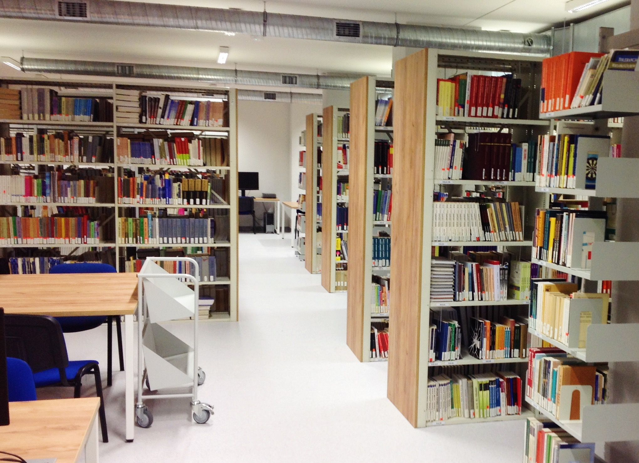 SWPS University Library